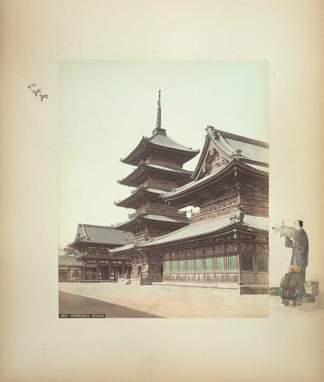 Tennonji, Osaka. Shitennō-ji, Osaka, between 1885 and 1890. Hand-coloured albumen print on a decorated album page by Adolfo Farsari. Accessed 9 February 2006.